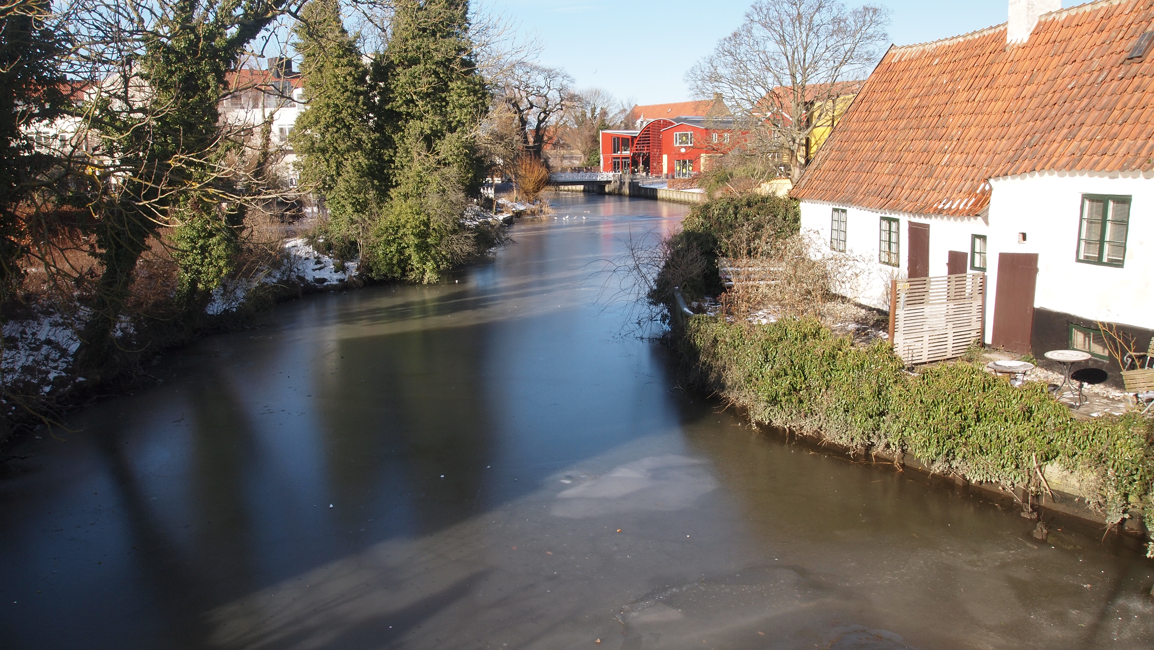 Køge Å